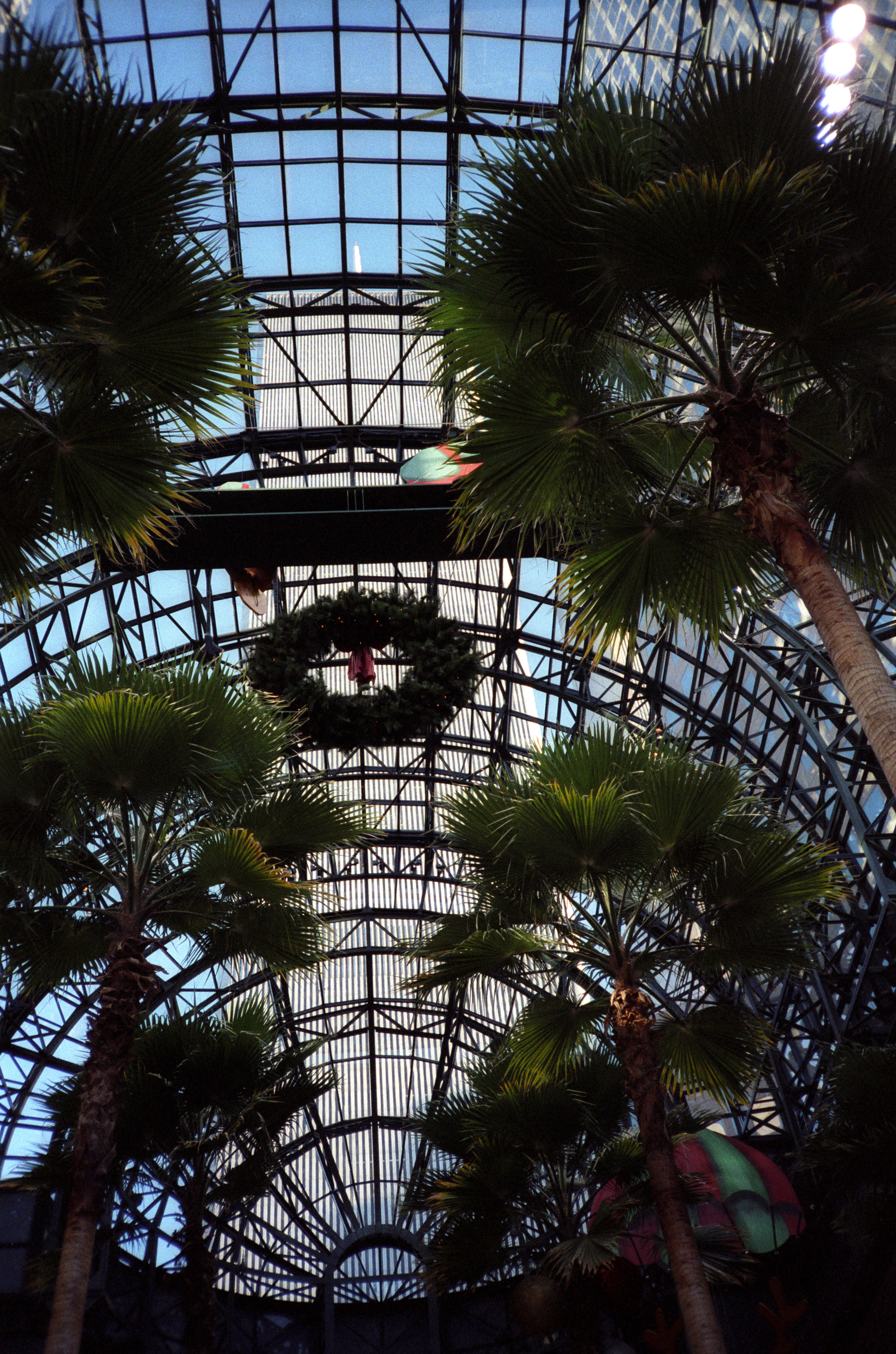 1 World Trade Center (North Tower) as seen from Winter Garden Atrium, December 1988. Original description by photographer: "In the Winter Garden at the World Financial Center in Battery Park City, looking up at one of the Twin Towers (sniff...)"